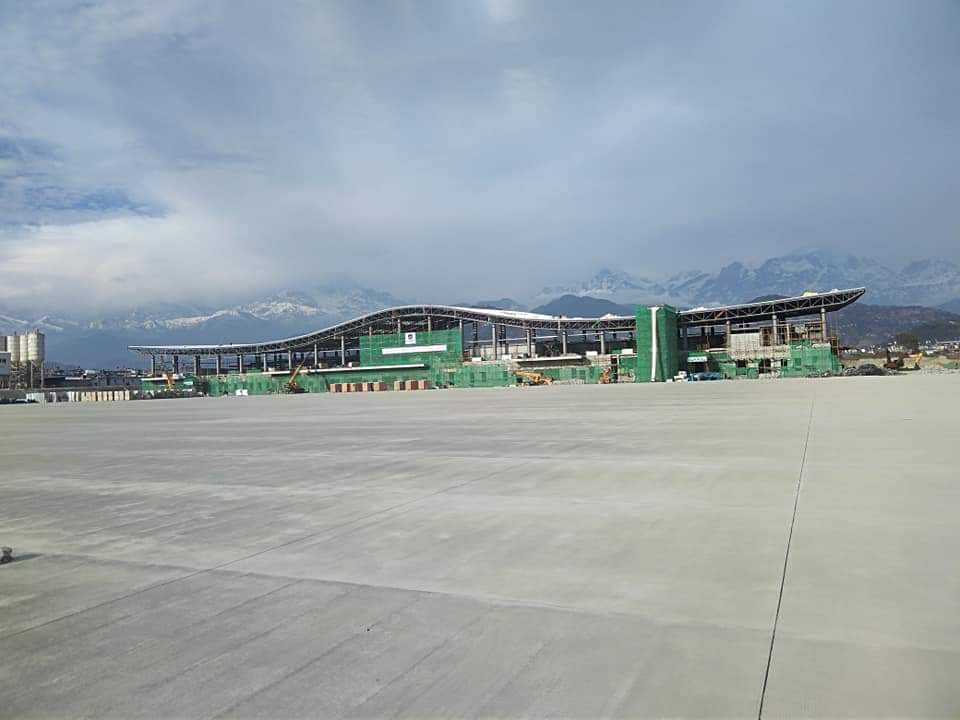 A scene of constructing Pokhara International Airport